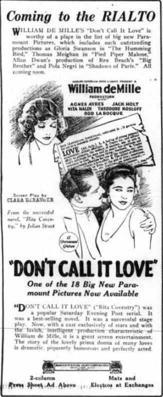 Advertisement for the American comedy film Don't Call It Love (1923), on page 22 of the December 20, 1923 Variety.